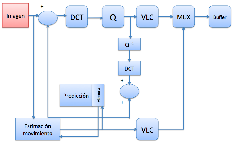 Code_hibrido.png